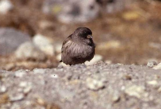 Leucosticte brandti at Lobuche (Khumbu, Nepal)